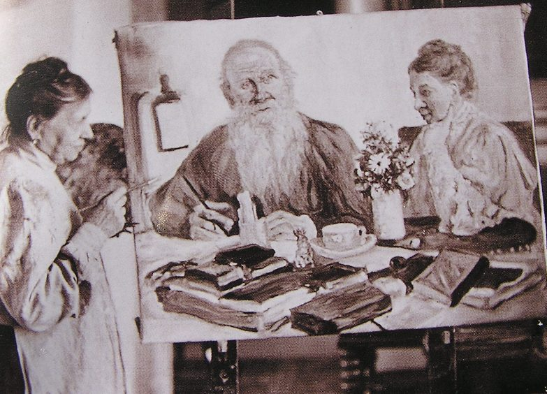 Sofia Tolstaya paints a copy of the portrait done by Ilya Repin